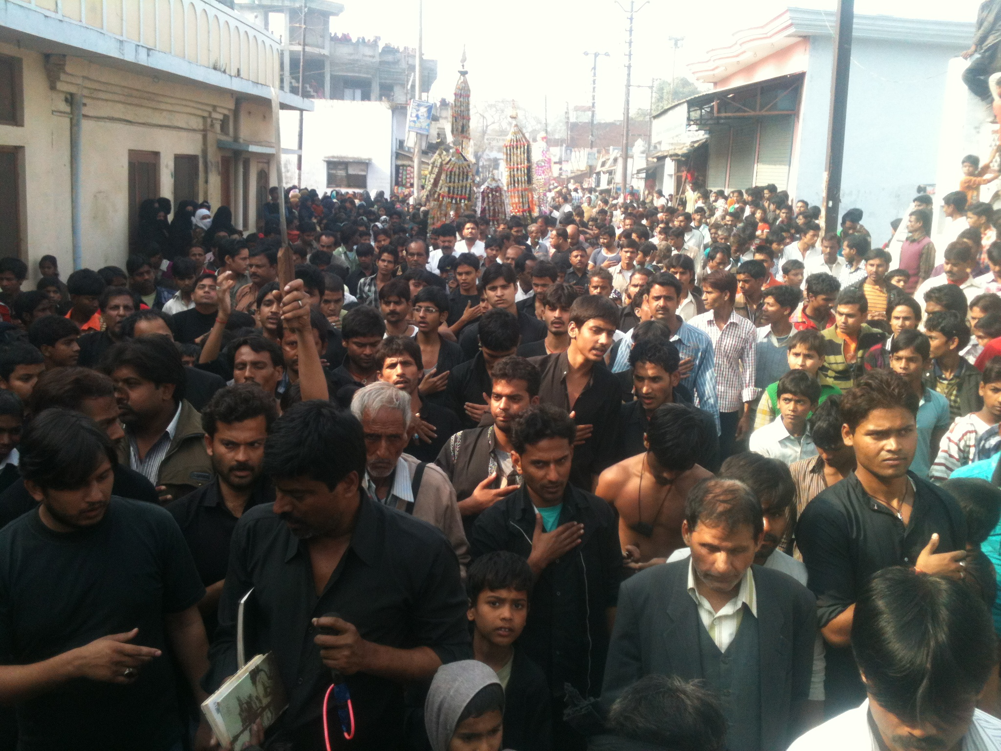 Shia Muslims performing in Ashura procession at Hardoi